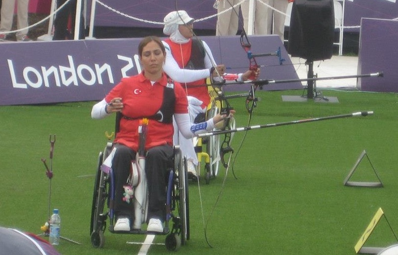 Turkish Paralympic archer Gizem Girişmen (nearest the camera) competing against Iran's Zahra Nemati at the London 2012 games.